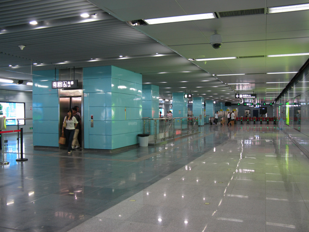 Line 1 Concourse of Baishizhou Station, Shenzhen Metro, view towards Shi Jie Zhi Chuang Station